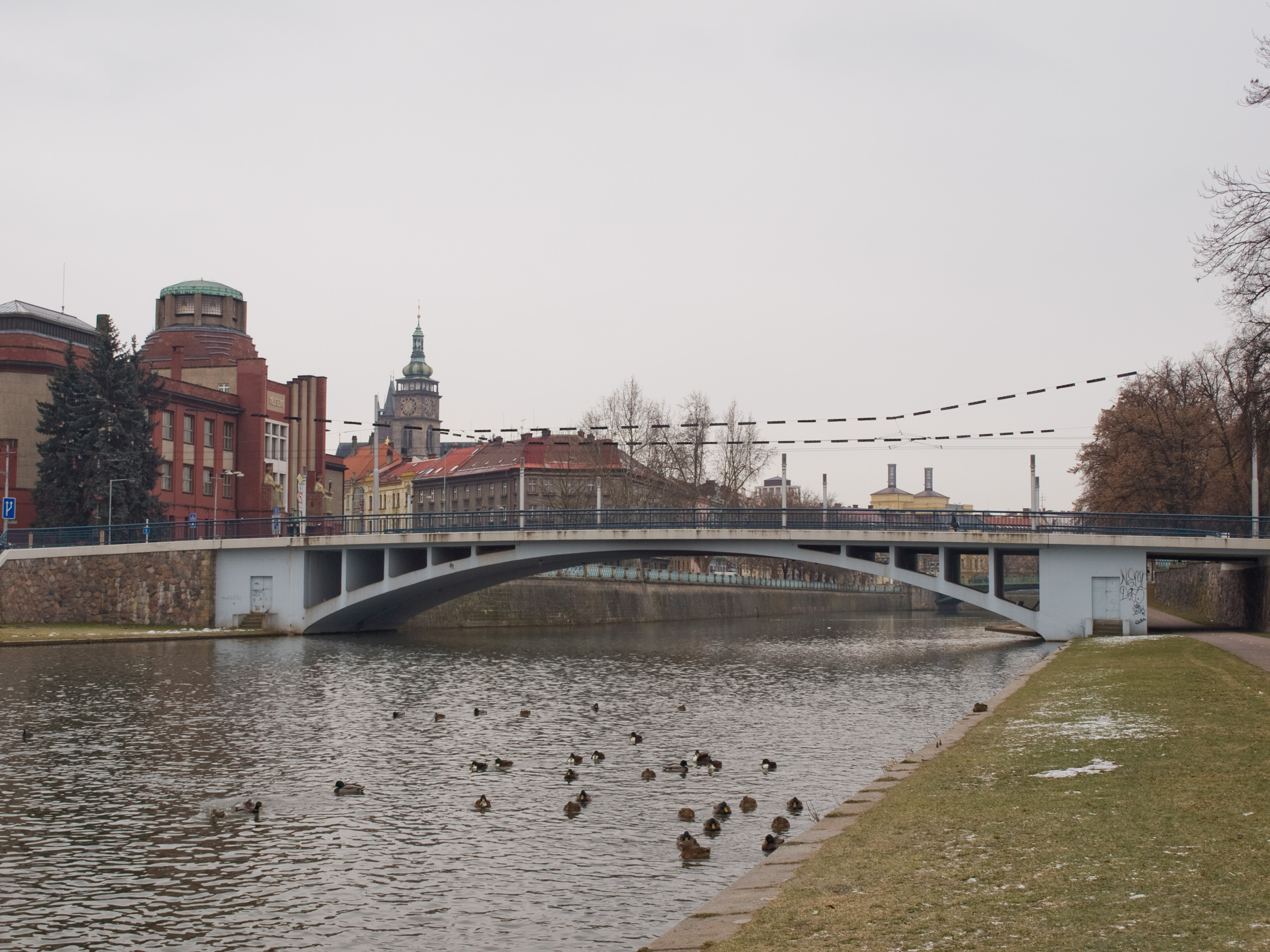 Tyršův most, Hradec Králové